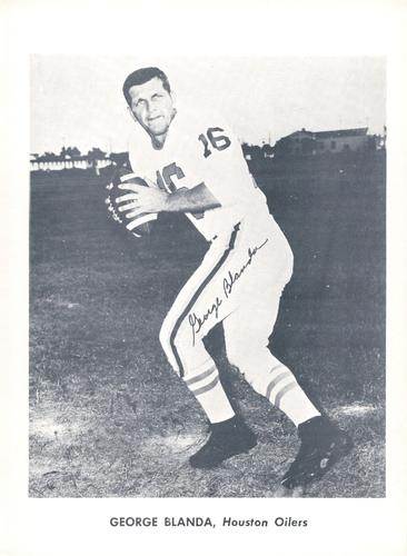 A promotional image of Houston Oilers player George Blanda.